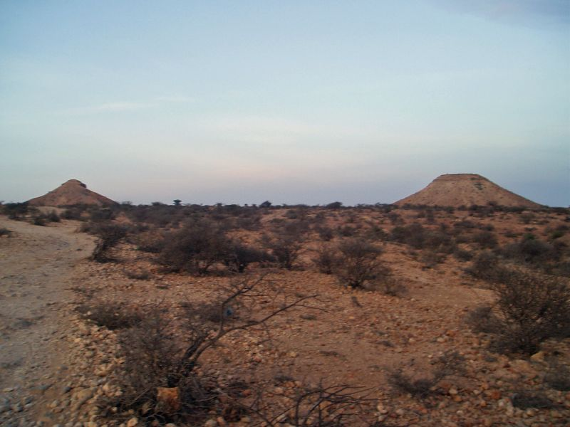 Countryside in the Somaliland region of Somalia; almost certainly the Naasa Hablood hills near Hargeysa